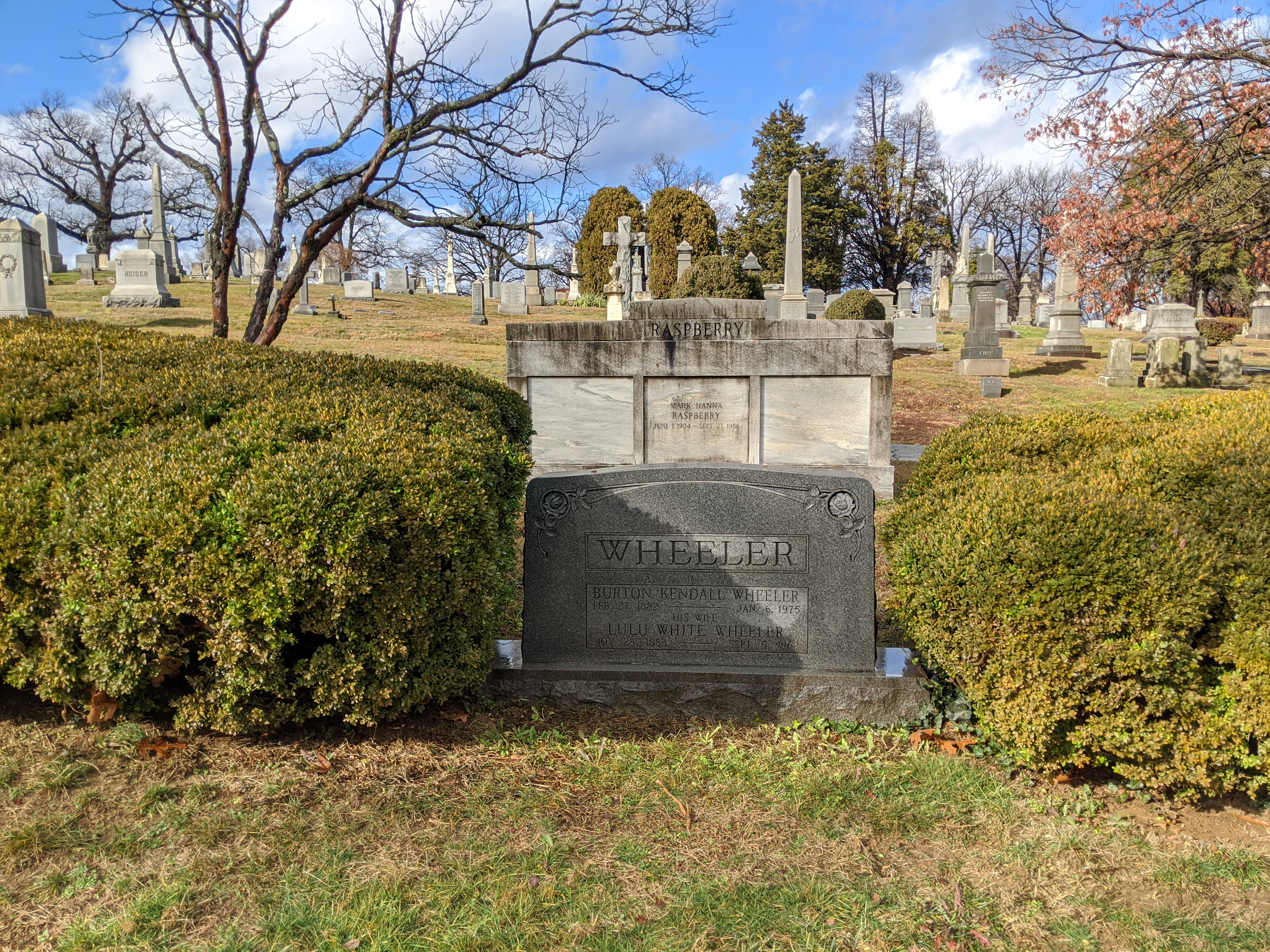 grave of Senator Burton K Wheeler & his wife Lulu White , Rock Creek Cemetery, Washington DC